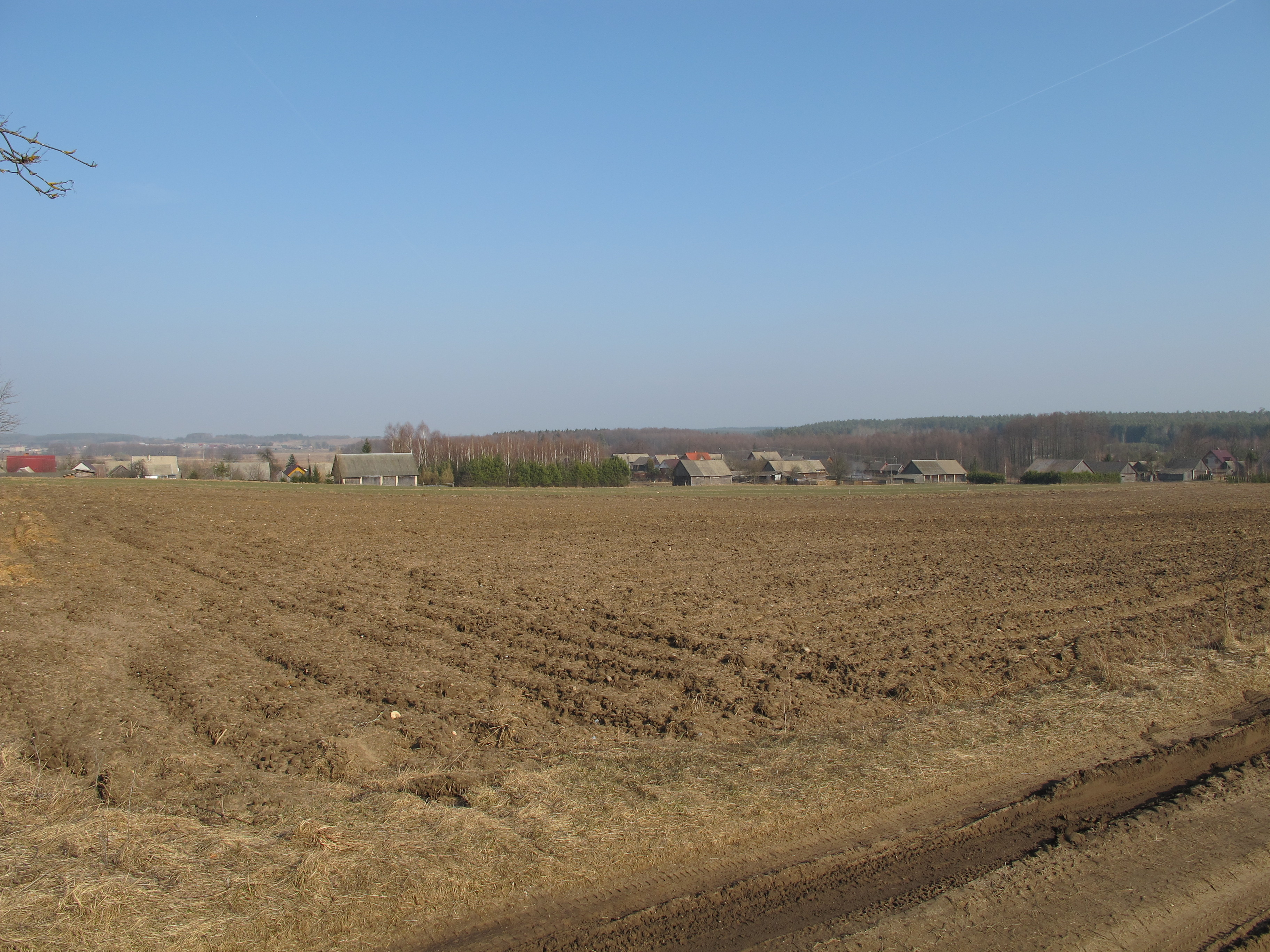 Panorama on Łaźnisko village, gmina Szudziałowo, podlaskie, Poland